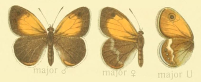 Coenonympha arcanioides f. major